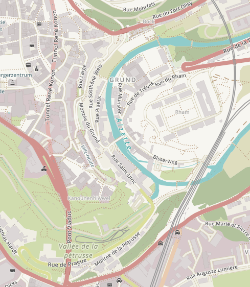 Map of the Grund district in Luxembourg City